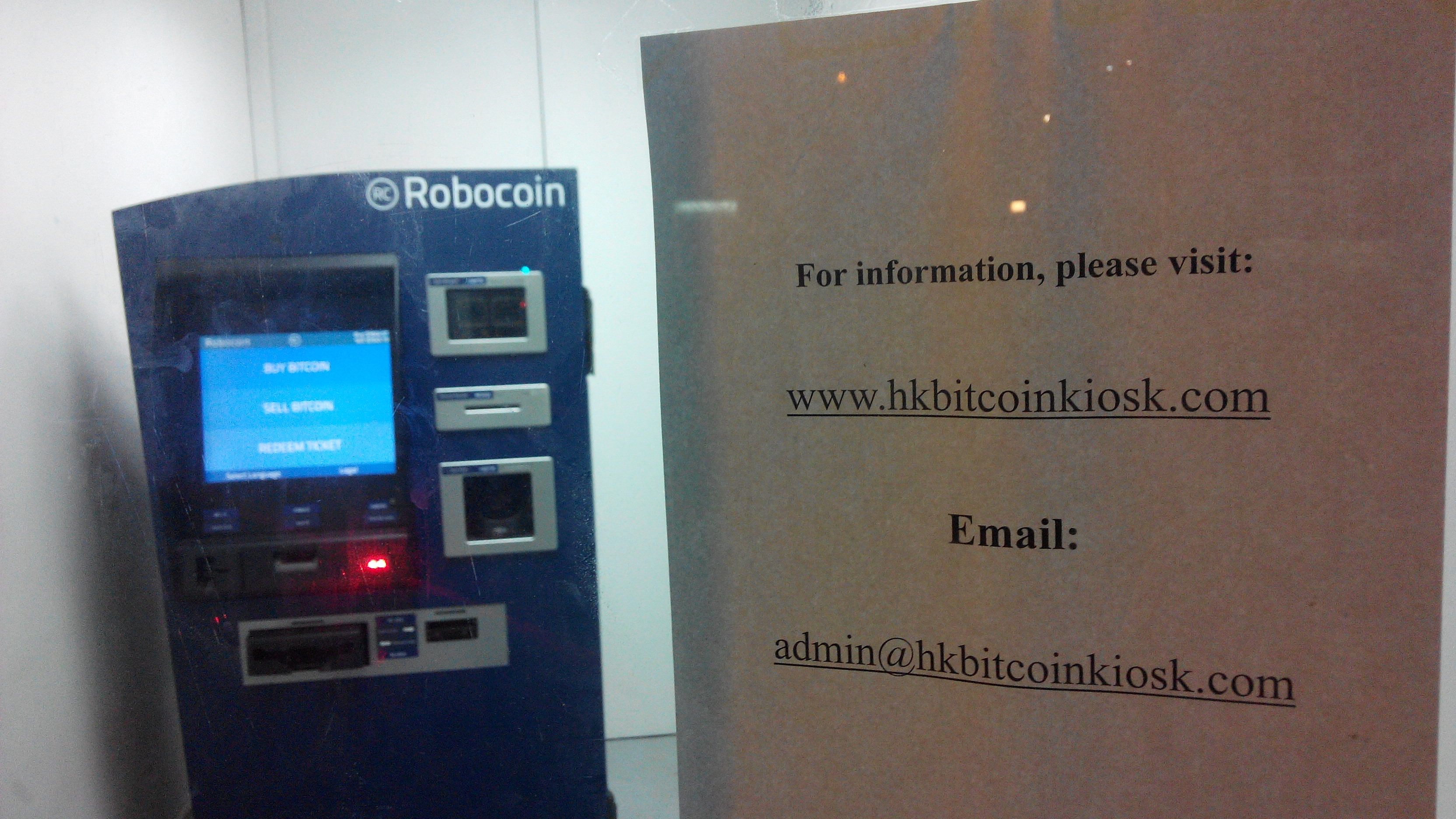 Bit Coin Terminal RoboCoin installed at a shop in Bonham Road, Sai Ying Pun, Hong Kong